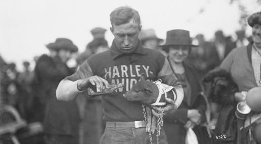 Ray Weishaar